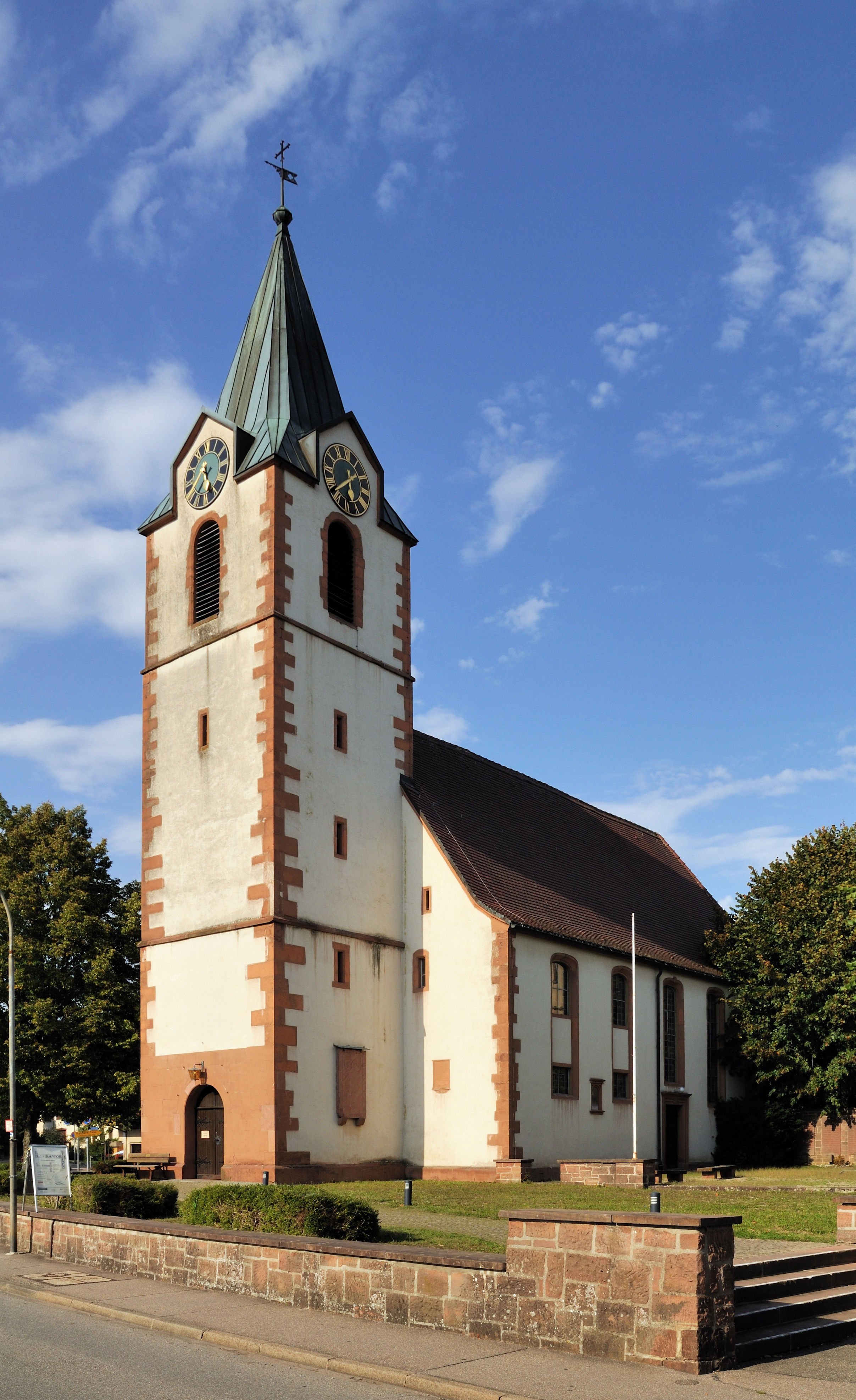 Steinen: Protestant Church